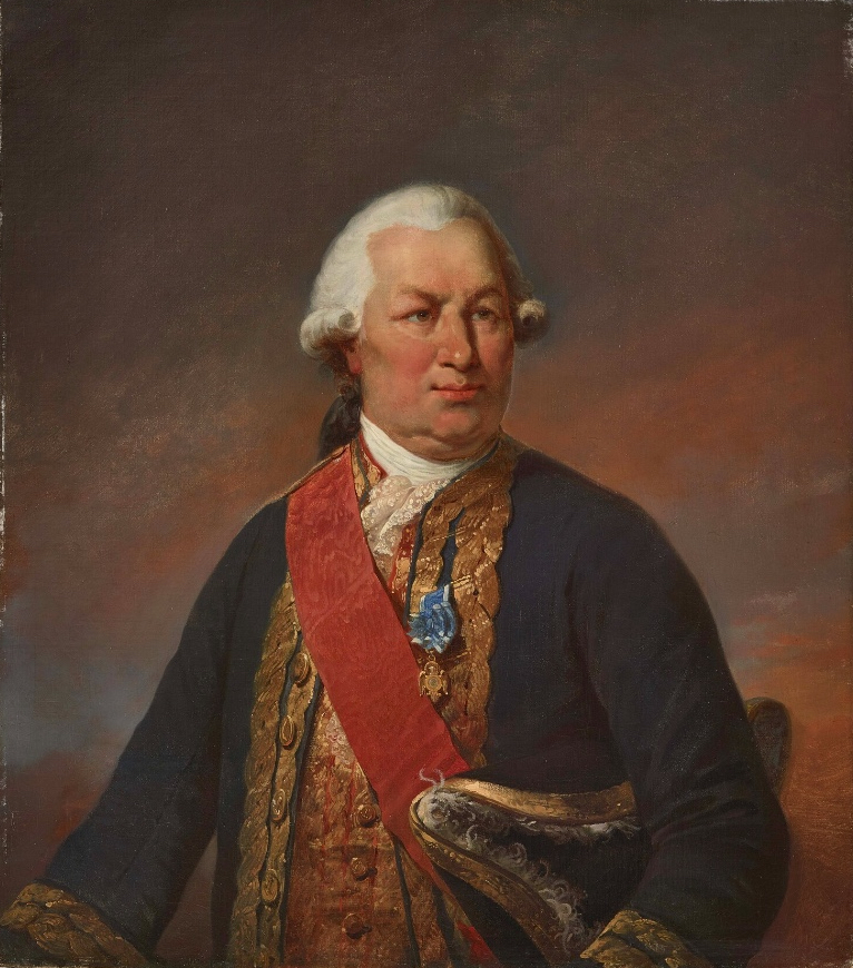 Portrait of the Count de Grasse, commander of the French fleet at the Battle of the Chesapeake in 1781.